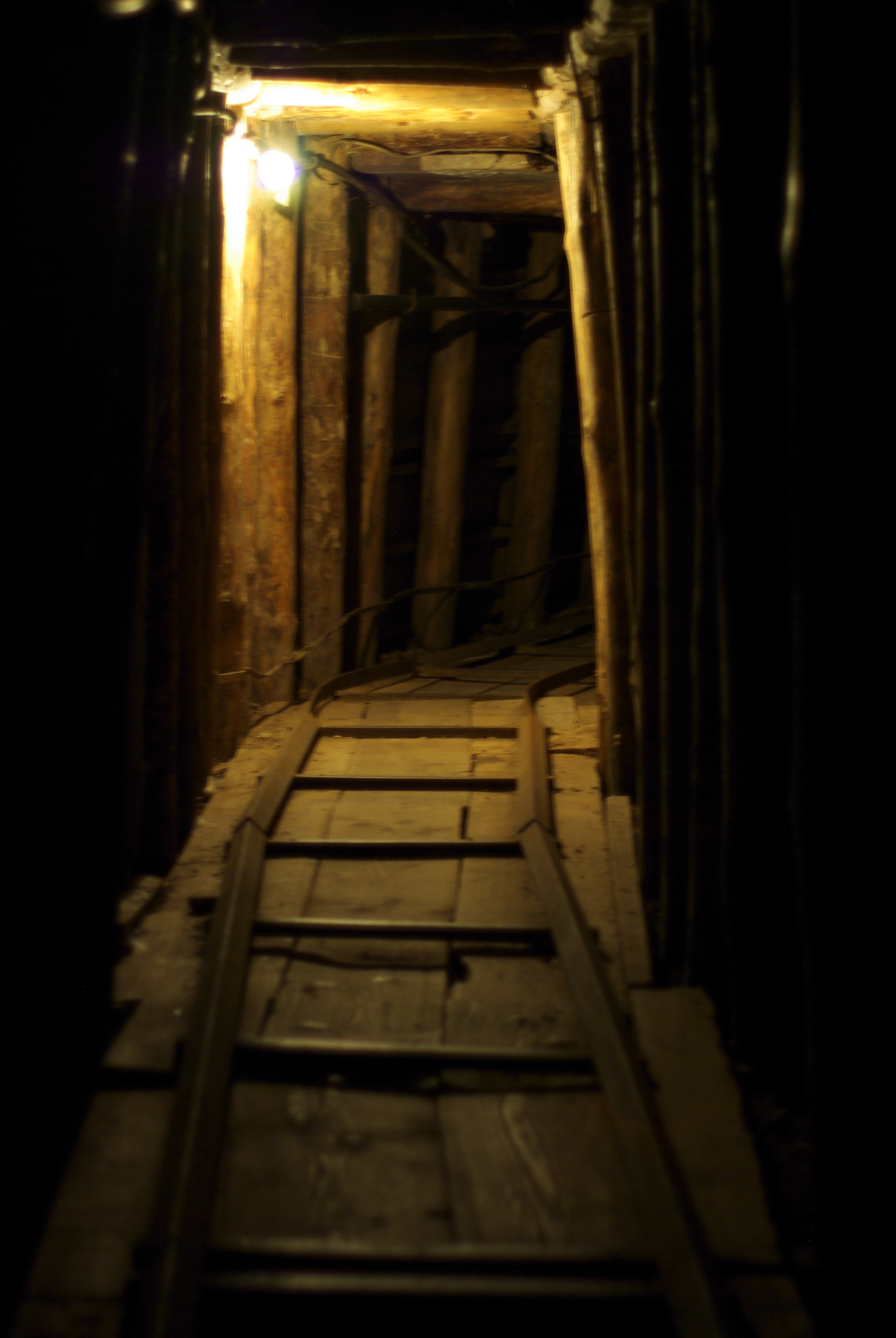 Bosnian volunteers dug this tunnel in 1993. Food, medicine, weapons etc. were transported in the city from 1993 to 1995 while Sarajevo was besieged by Serbian forces. It also allowed citizens to flee out of the city.